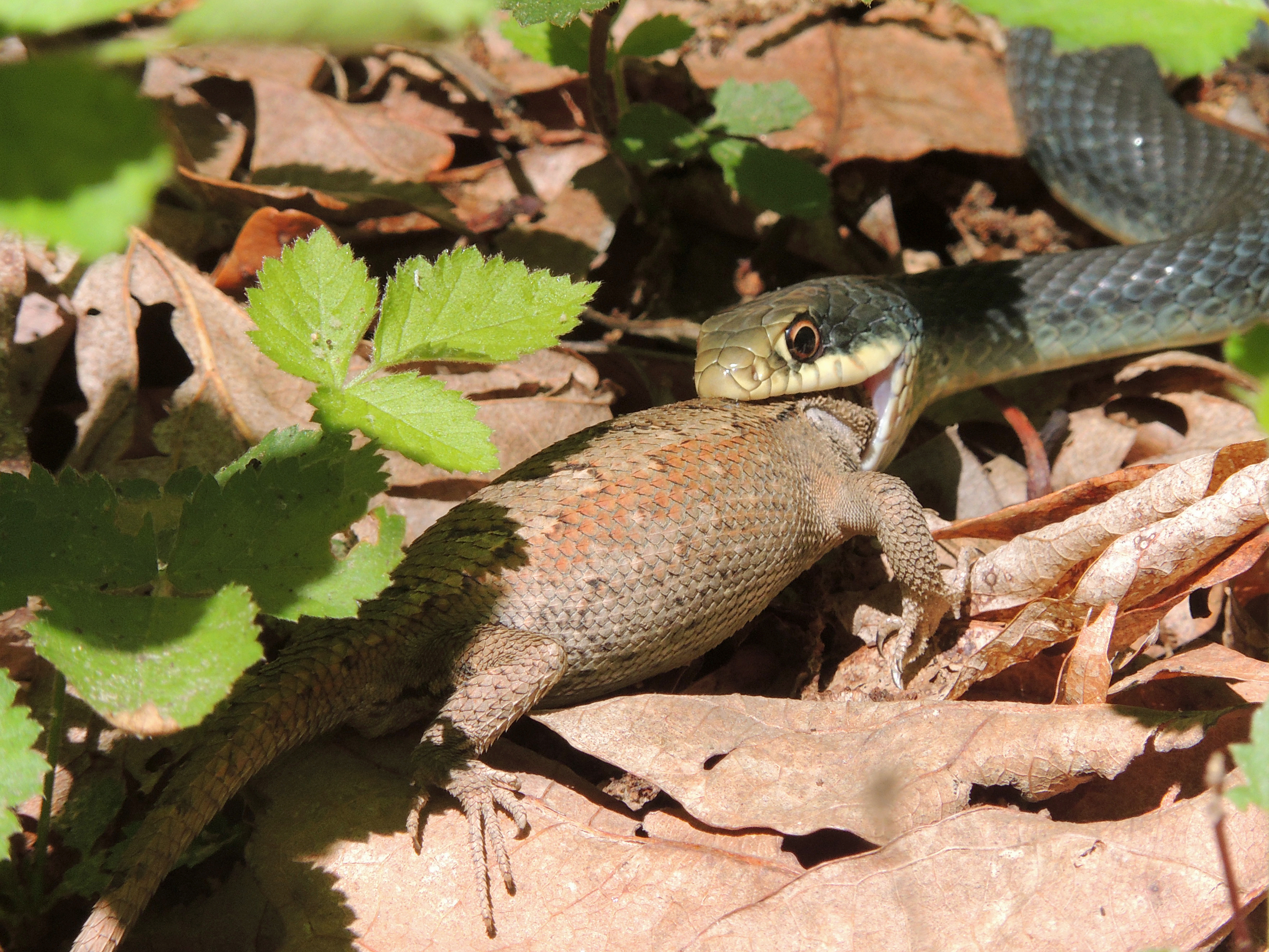 a western rat snake eating an eastern fence lizard